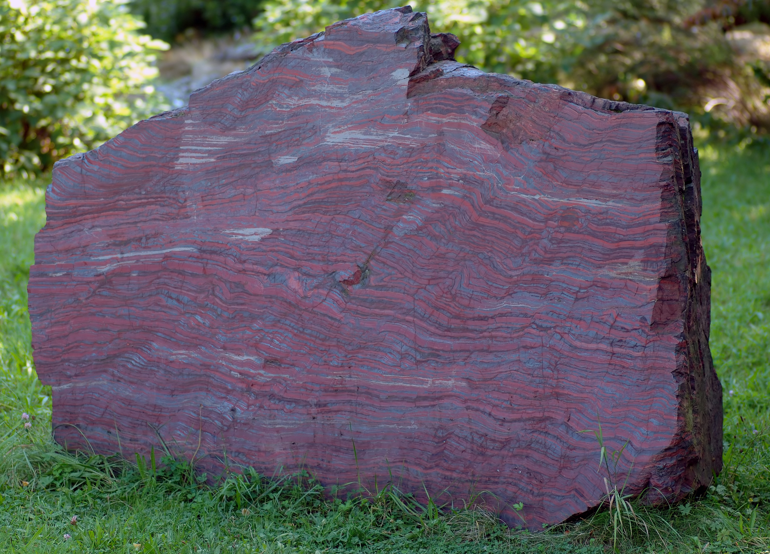 This image shows a 2.1 billion year old rock containing black-banded ironstone. The rock weighs about 8.5 tons, and is approximately two meters high, three meters wide, and one meter thick. It was found in North America and belongs to the National Museum of Mineralogy and Geology, Dresden, Germany. The rock is located at +51°2'34.84" +13°45'26.67".